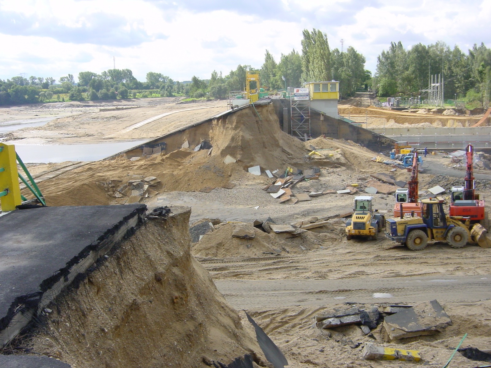 Witka dam, Poland, collapsed on August 7, 2010